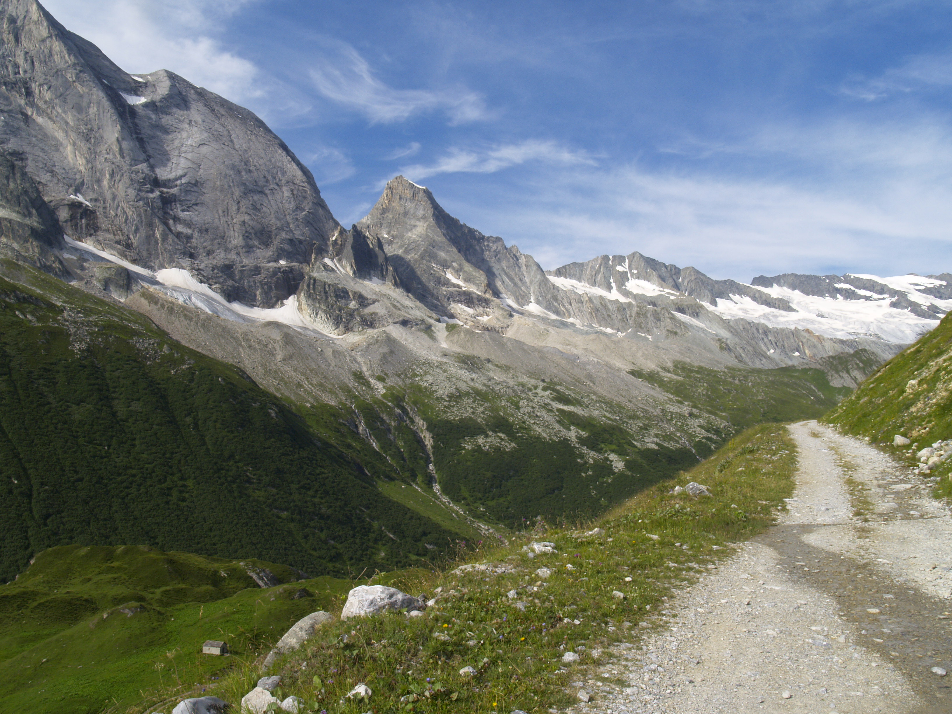 The Vanoise Massif